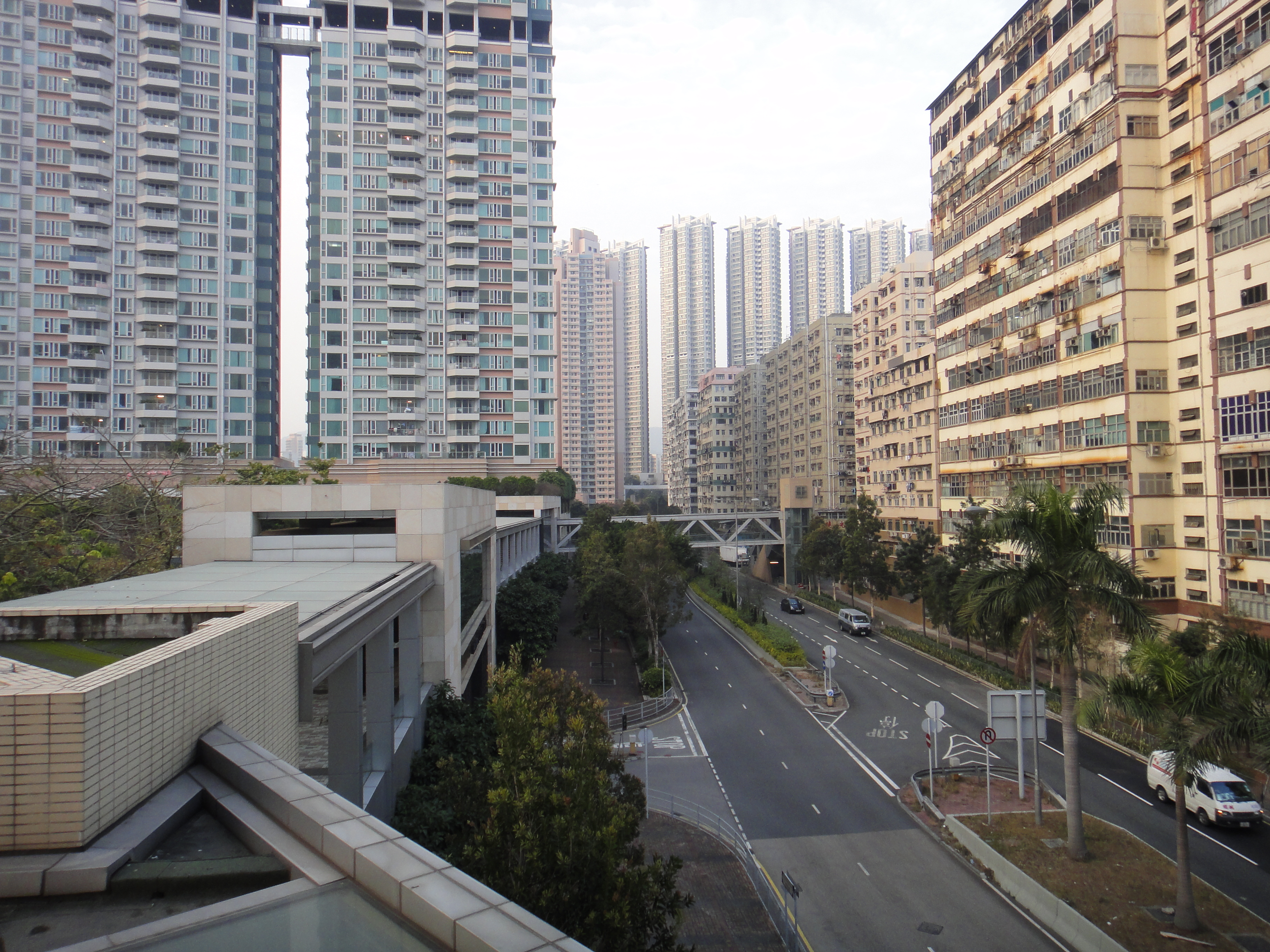 Tai Kok Tsui Houses